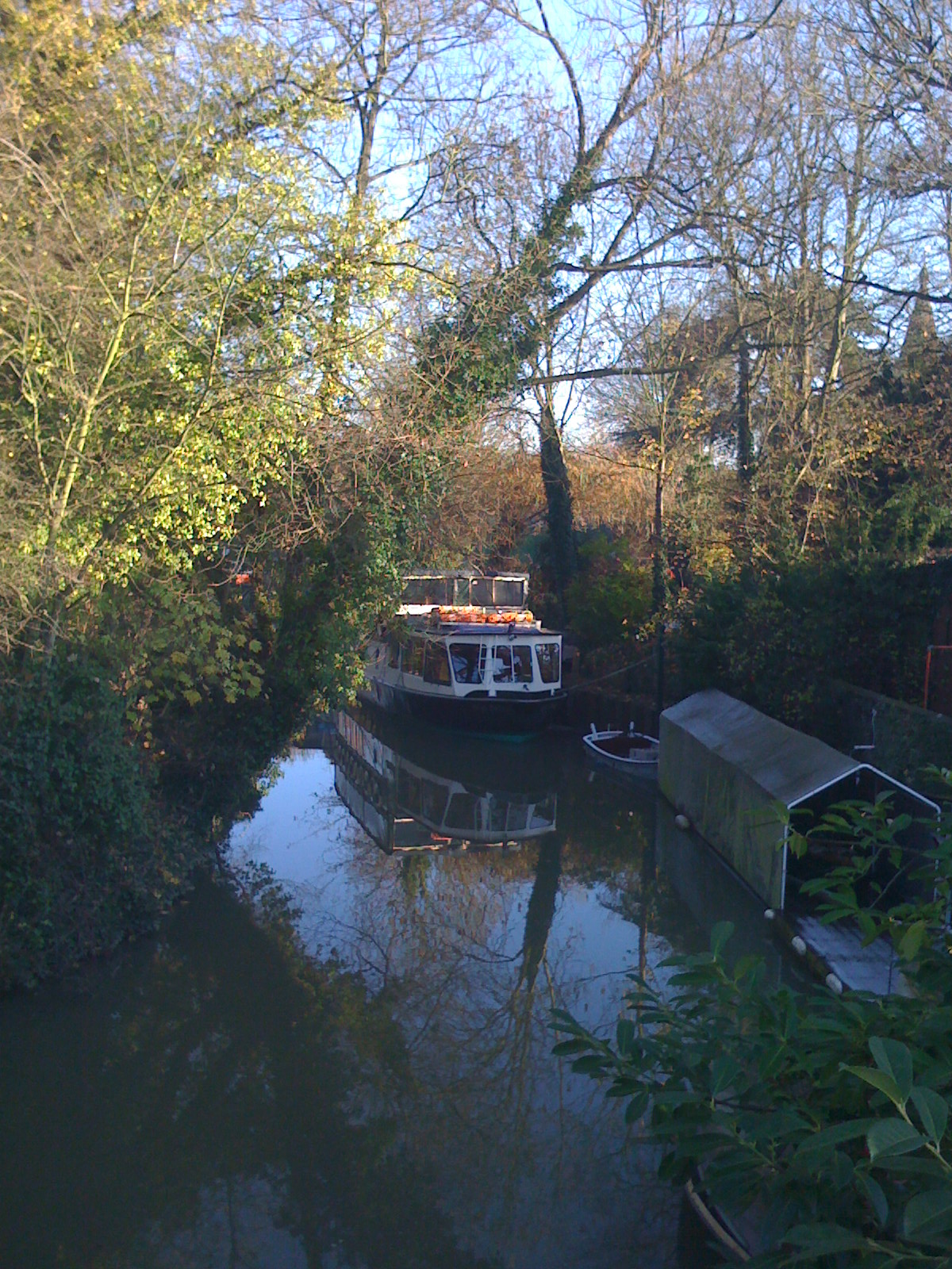 Downstream end of Clewer Mill Stream near the confluence with the Thames